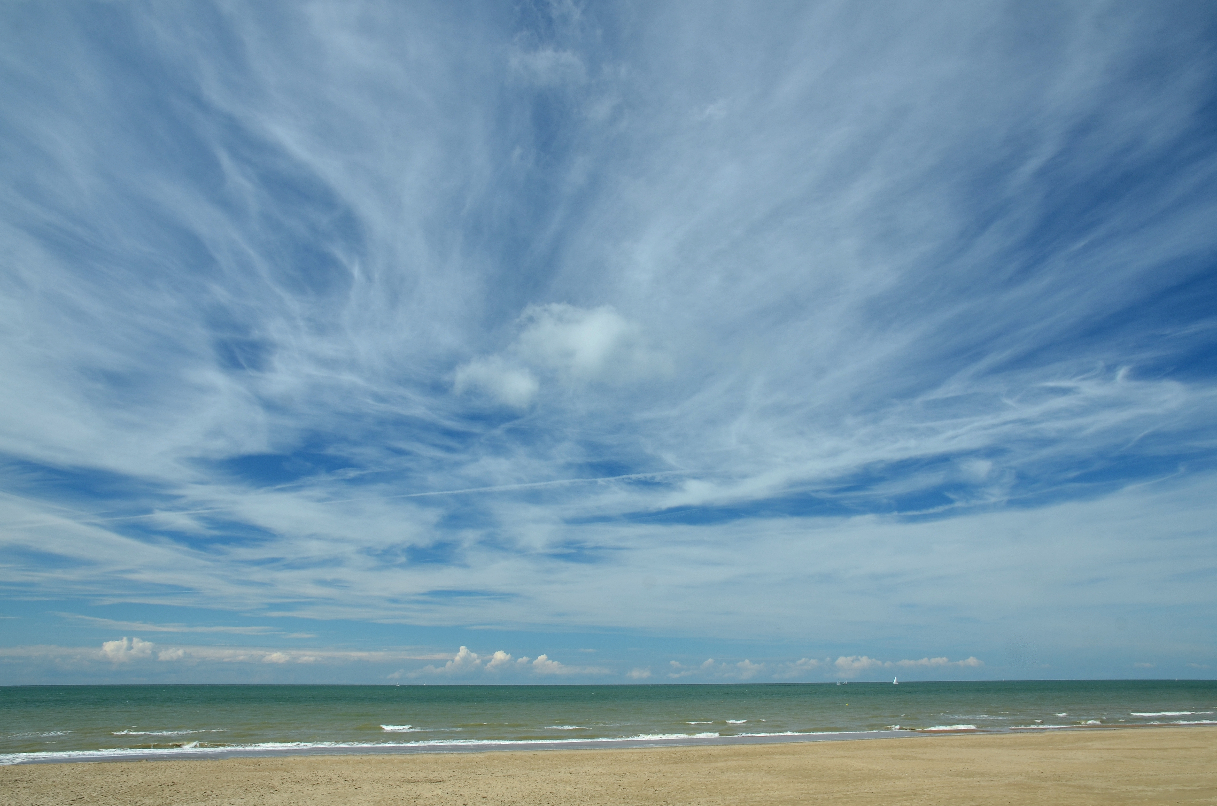 Sea, sand and clouds : the Belgian Coast